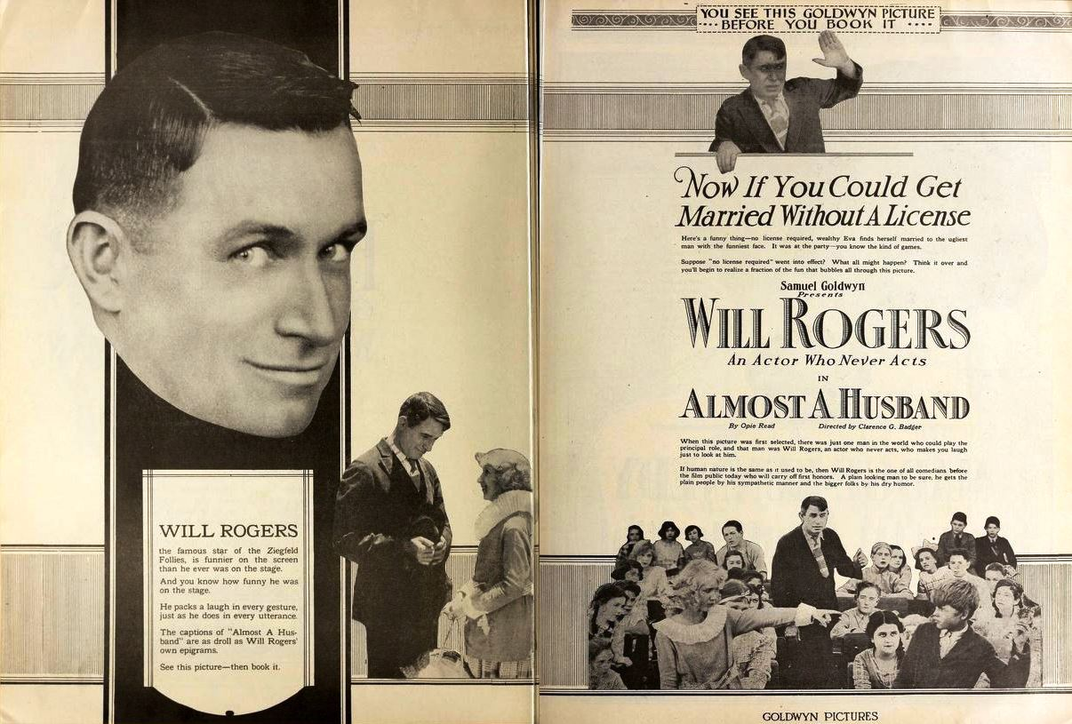 Ad for the American film Almost a Husband (1919) with Will Rogers, pages 1534 and 1535 of the August 23, 1919 Motion Picture News.